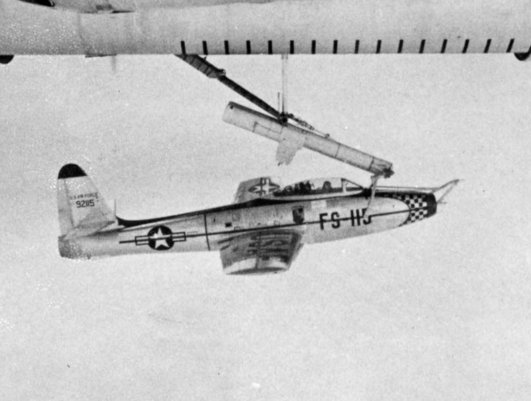 Project FICON: Republic F-84E (s/n 49-2115) retrieving position - short boom configuration.